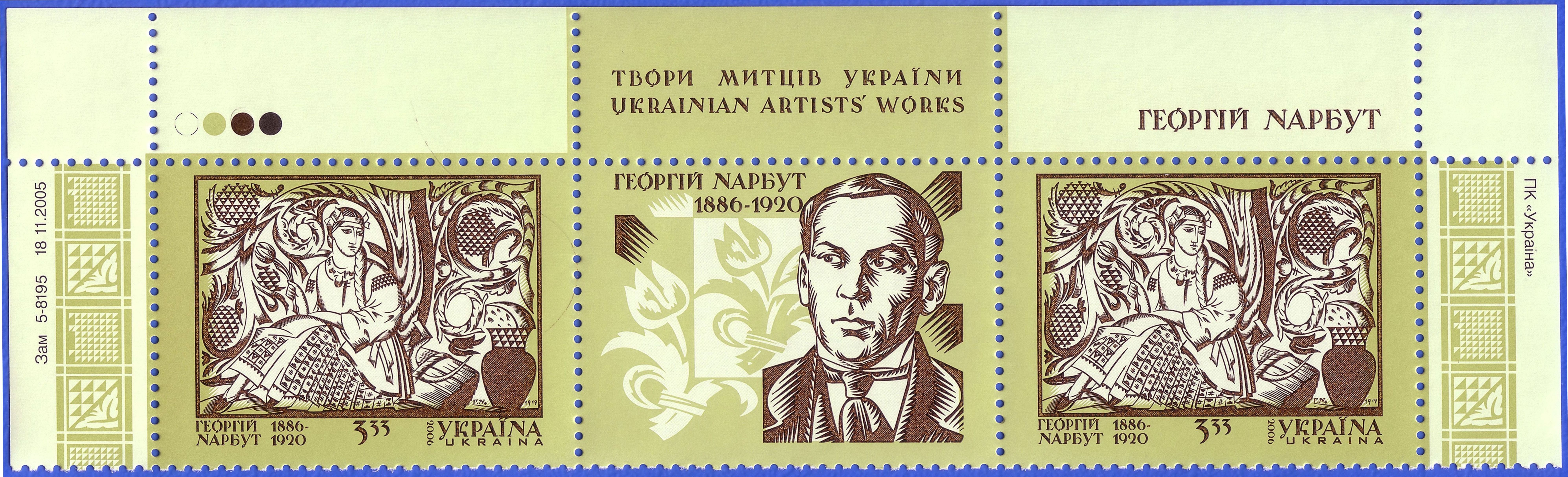 Stamps of Ukraine "Георгий Нарбут" горизонтальная сцепка с двумя купонами. Укрпочта, 2005.